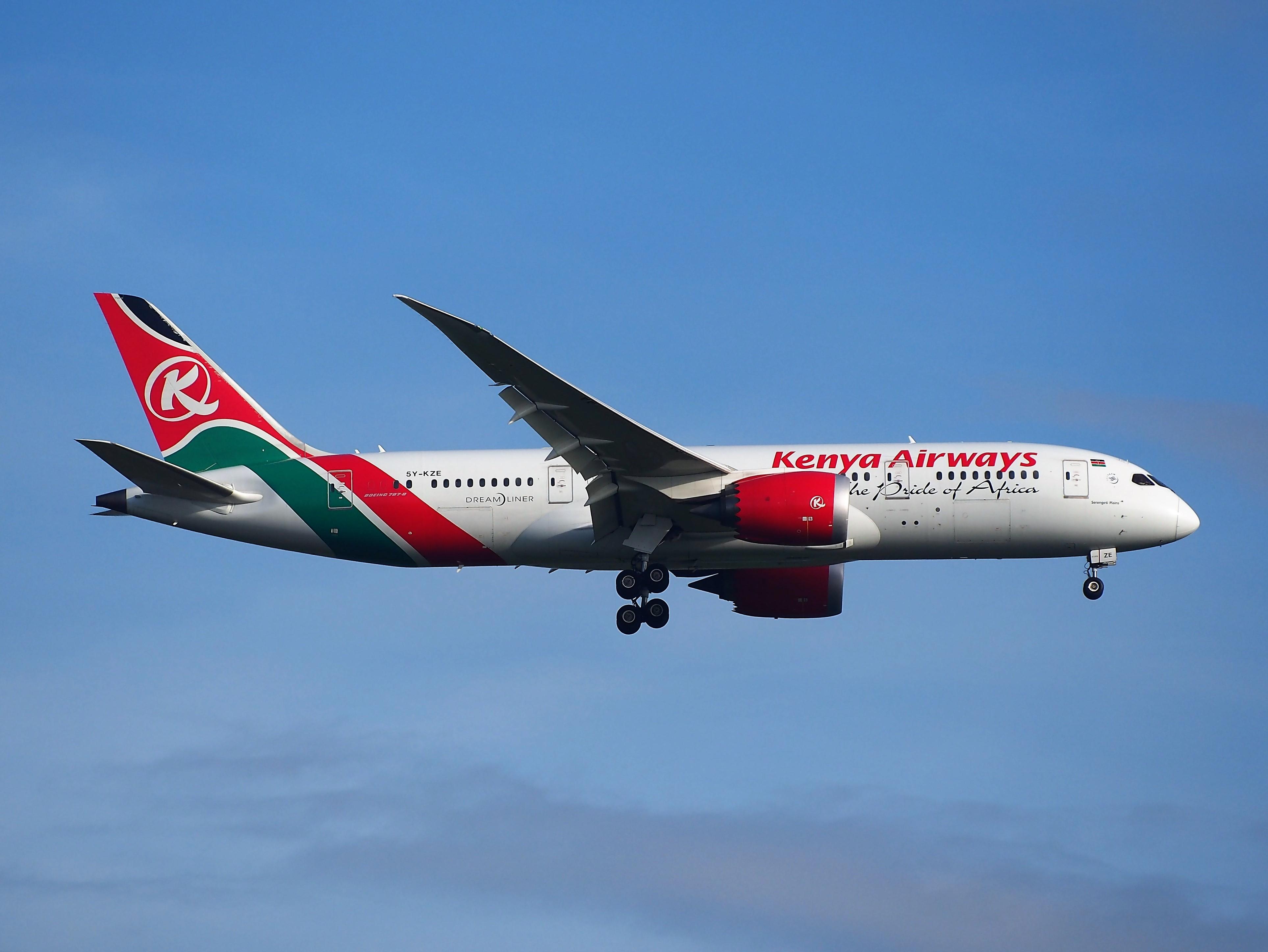 5Y-KZE (aircraft) on final at Schiphol runway 18R.